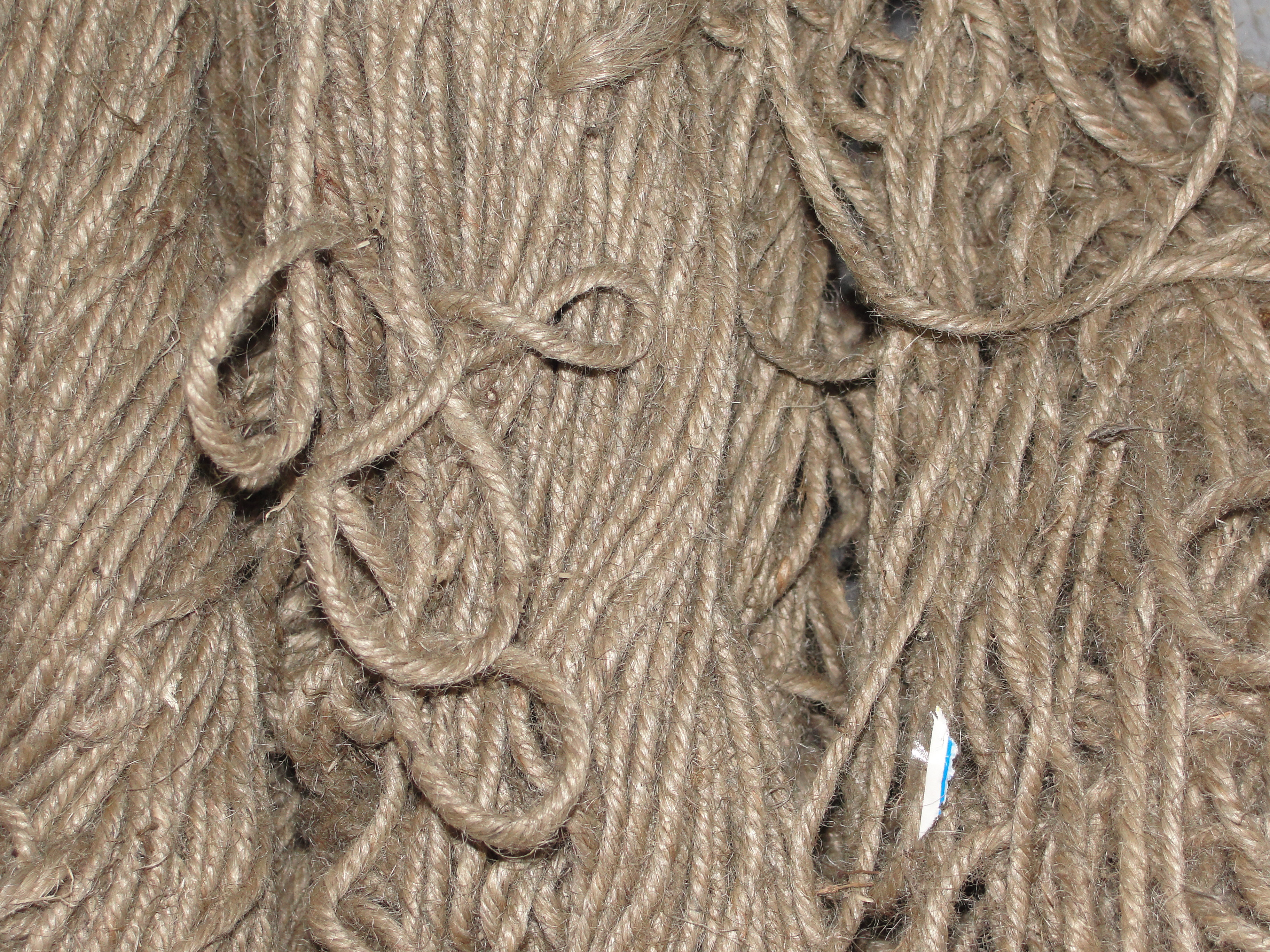 This photo depicting Jute Rope in closeup. Jute is a long, soft, shiny vegetable fibre that can be spun into coarse, strong threads.